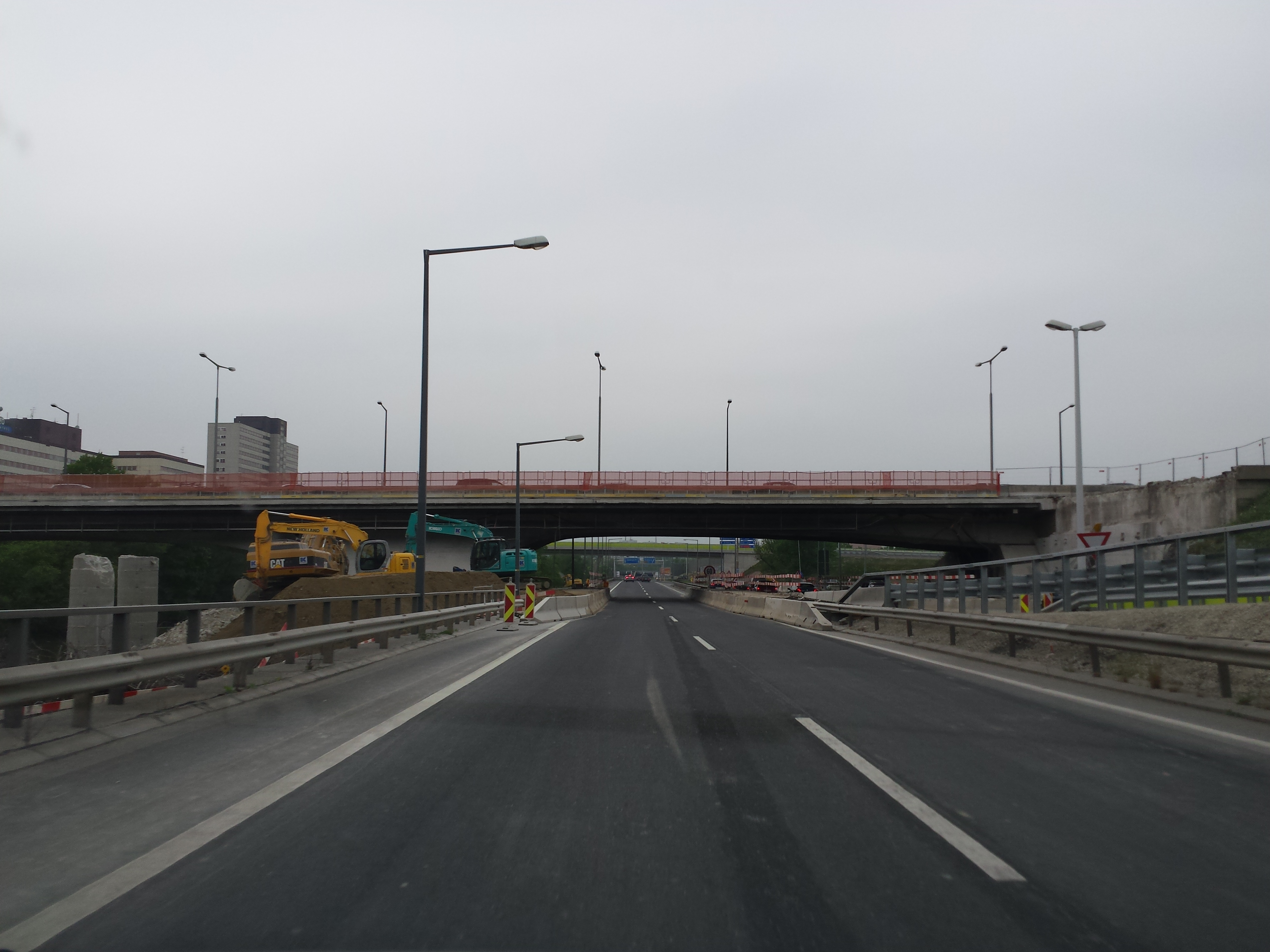 Abgerissene südliche Erdberger Brücke (Mai 2015)